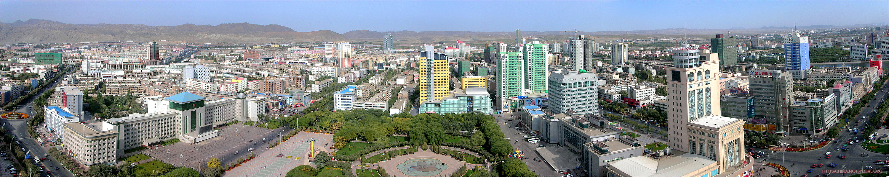 Michael D. Manning, The Opposite End of China (